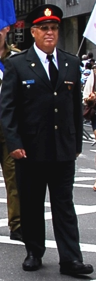 Michael Ya'aran marches in the United States